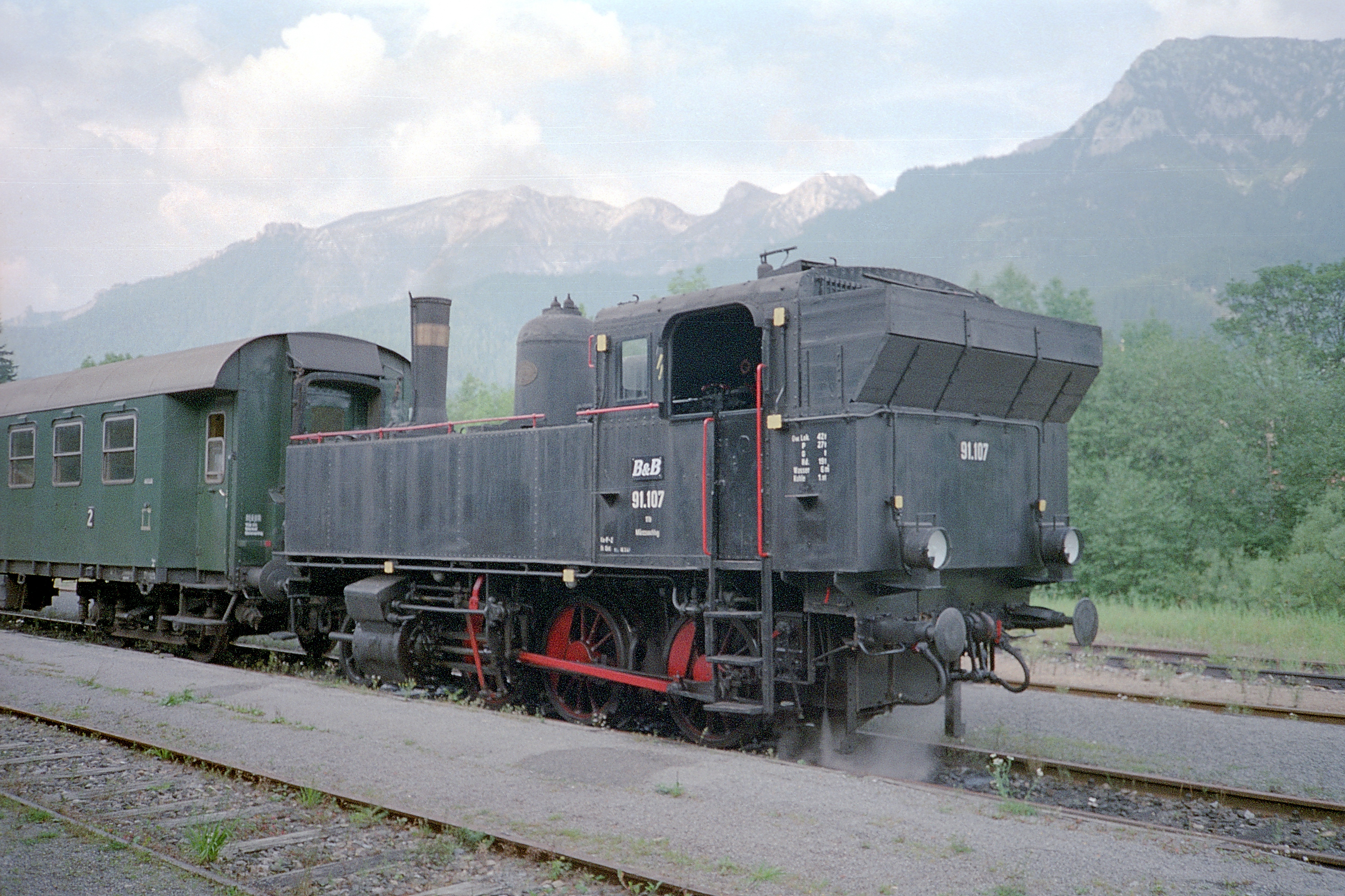 Ex-ÖBB 91.107 at Neuberg an der Mürz station.